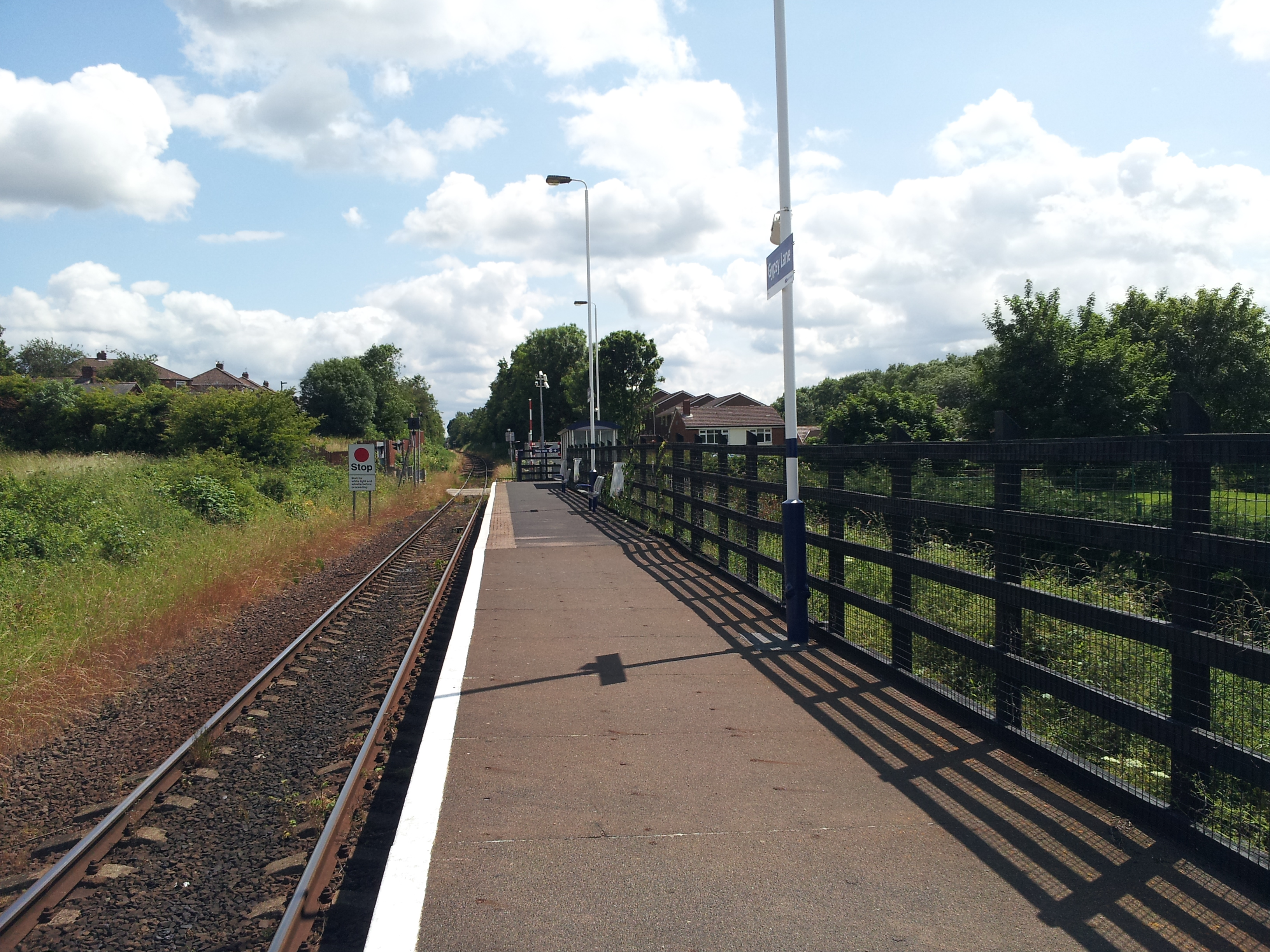 Gypsy Lane railway station July 2015